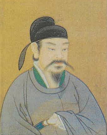 Emperor Ruizong of Tang.